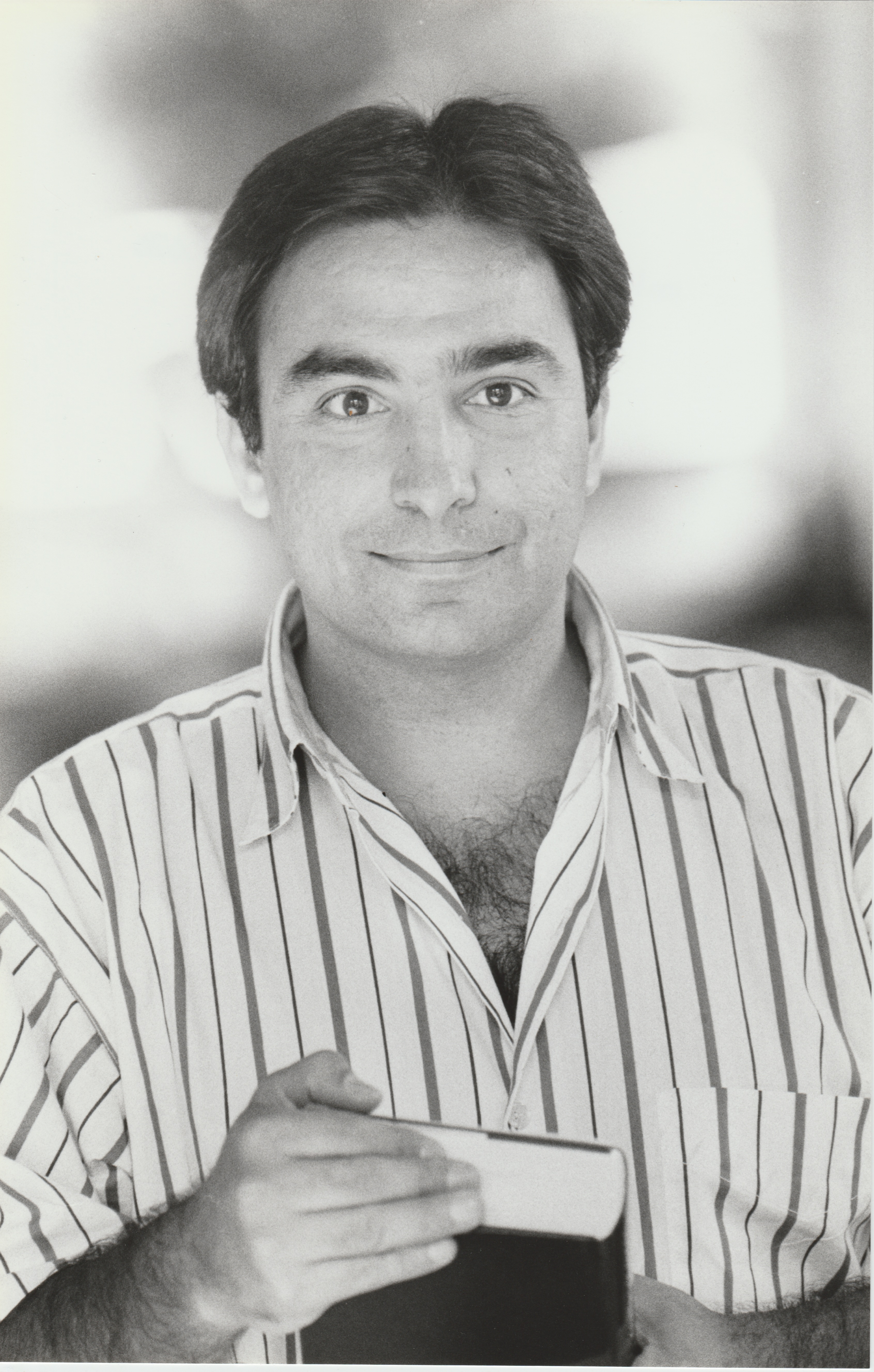 Fotoshoot voor het boek De hemel bleek grauw